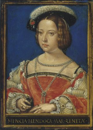 Mencía de Mendoza Berlín, Staatliche Museen